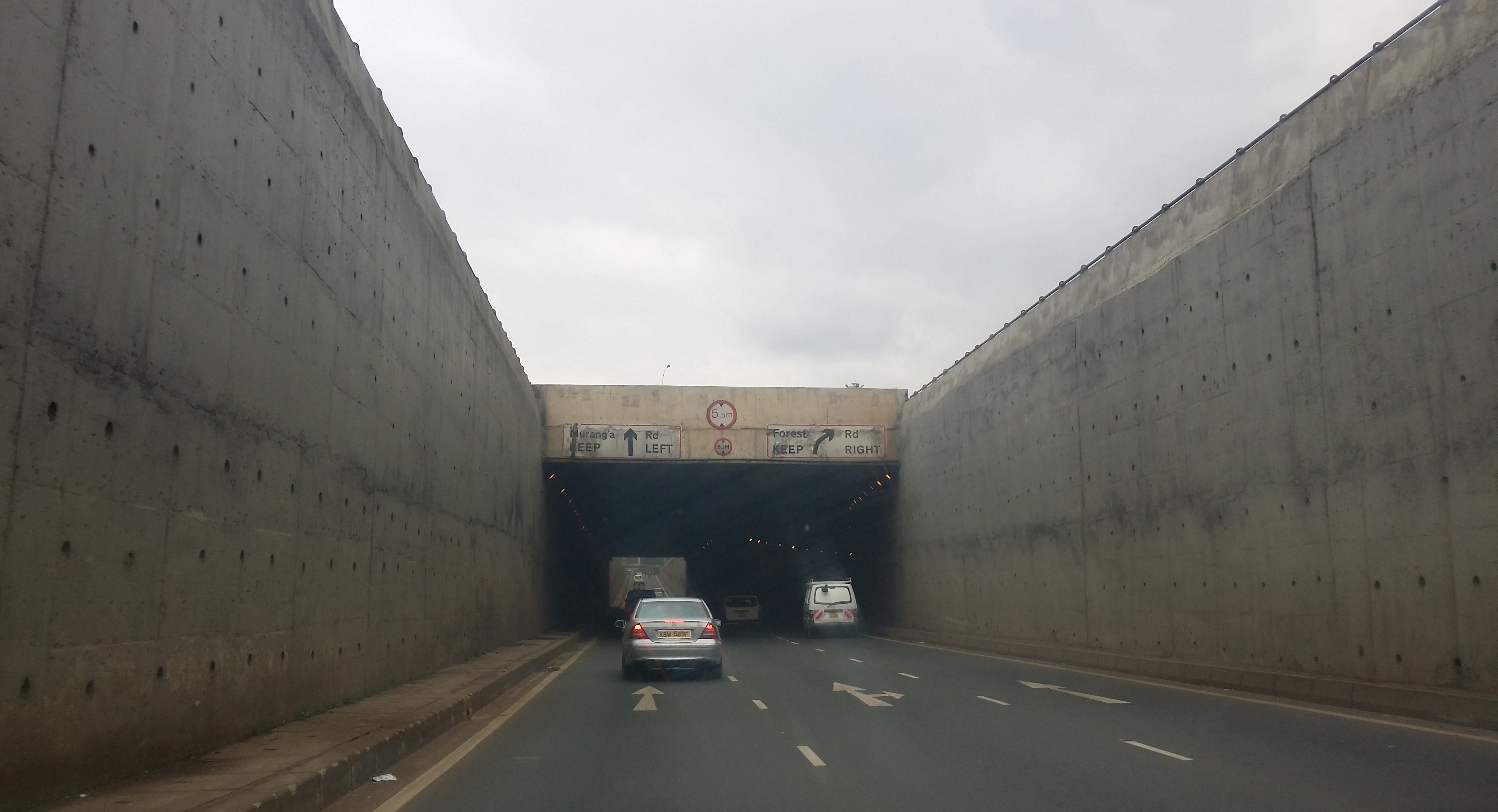 Underpass at the S2, Kenya Kiswahili: Underpass kwenye S2, Kenya